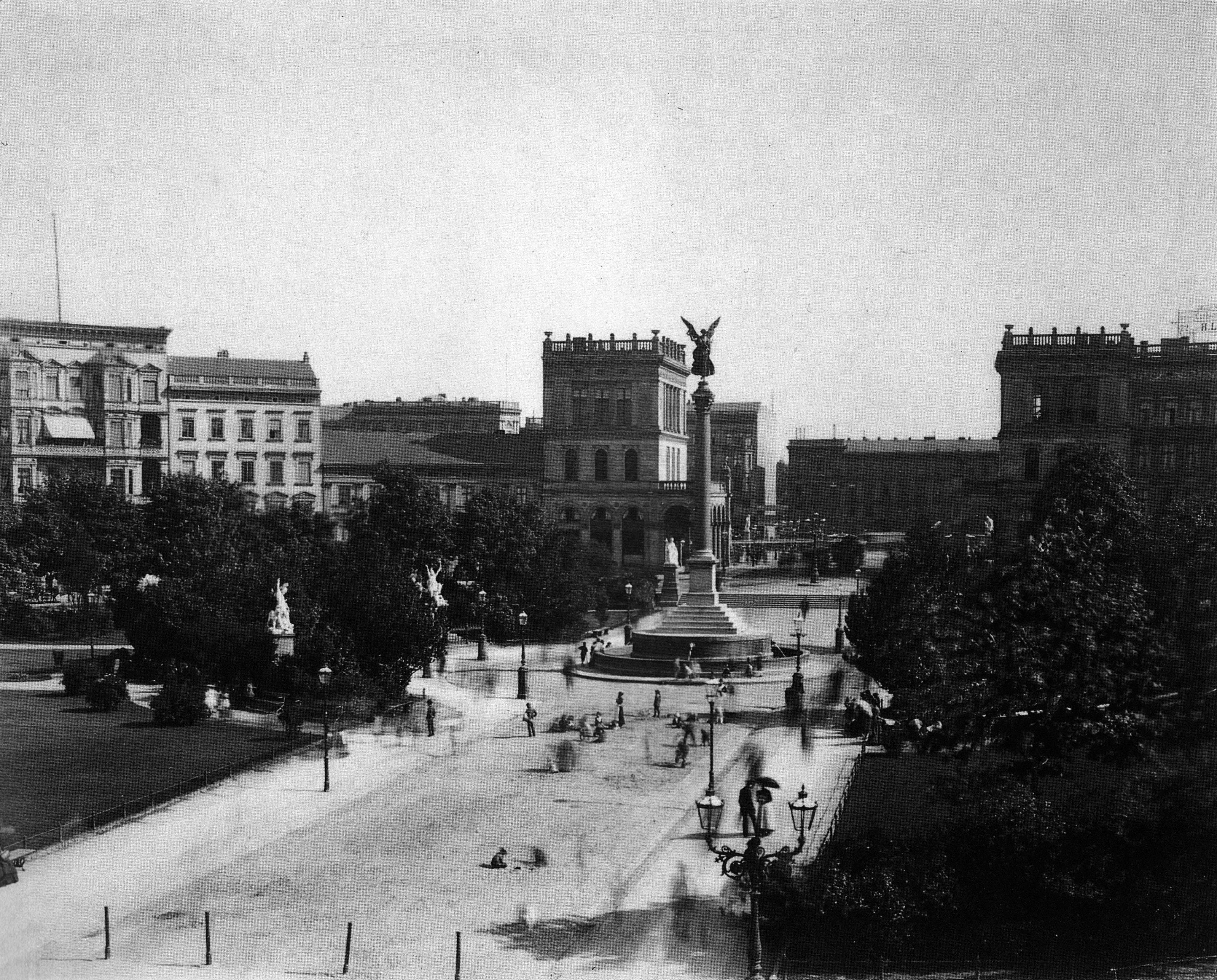 The Belle-Alliance-Platz (now Mehringplatz) at the southern end of Friedrichstadt, Berlin. At its center is the Column of Peace.